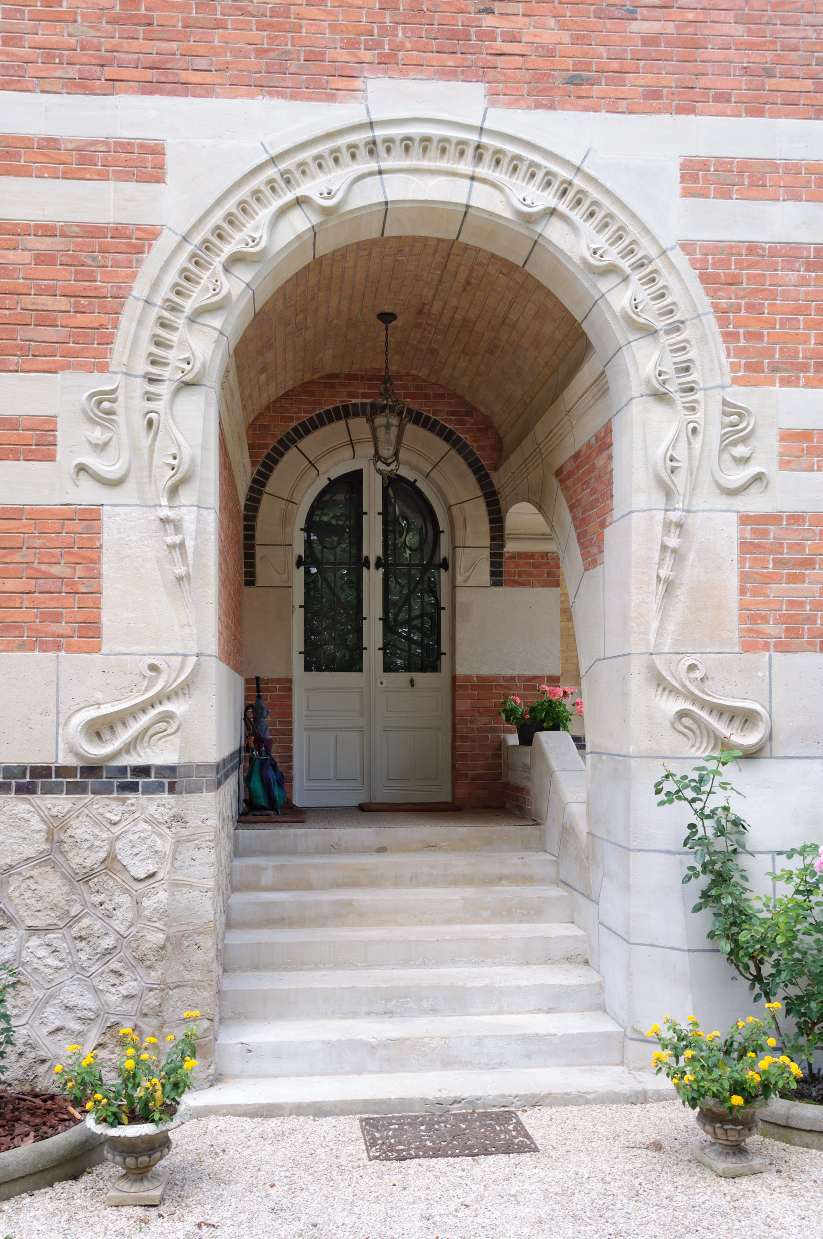 Villa Berthe, also known as La Hublotière, in Le Vésinet, Yvelines, France, work of the architect Hector Guimard. Porch with curved vault and entrance door, right side facade.